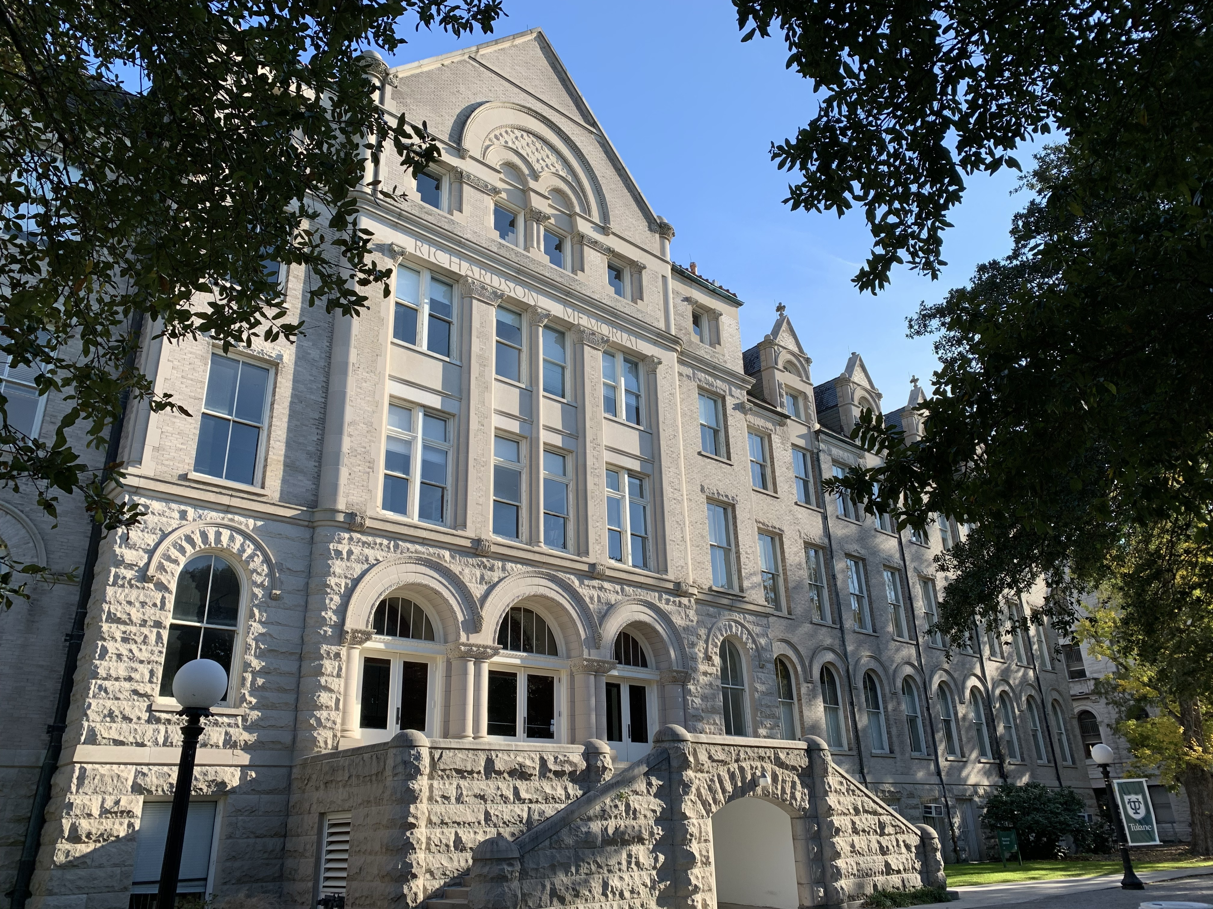 Richardson Memorial Hall at Tulane University, currently housing the School of Architecture